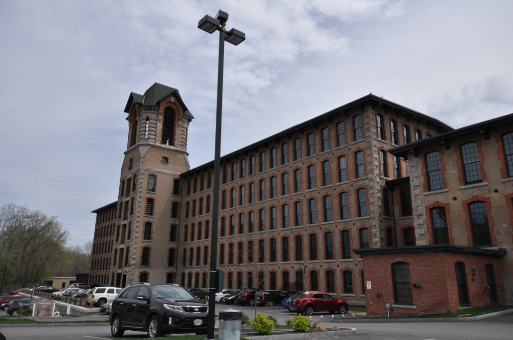 Anthony Village Historic District, front view of Anthony Mills, Coventry, Rhode Island.